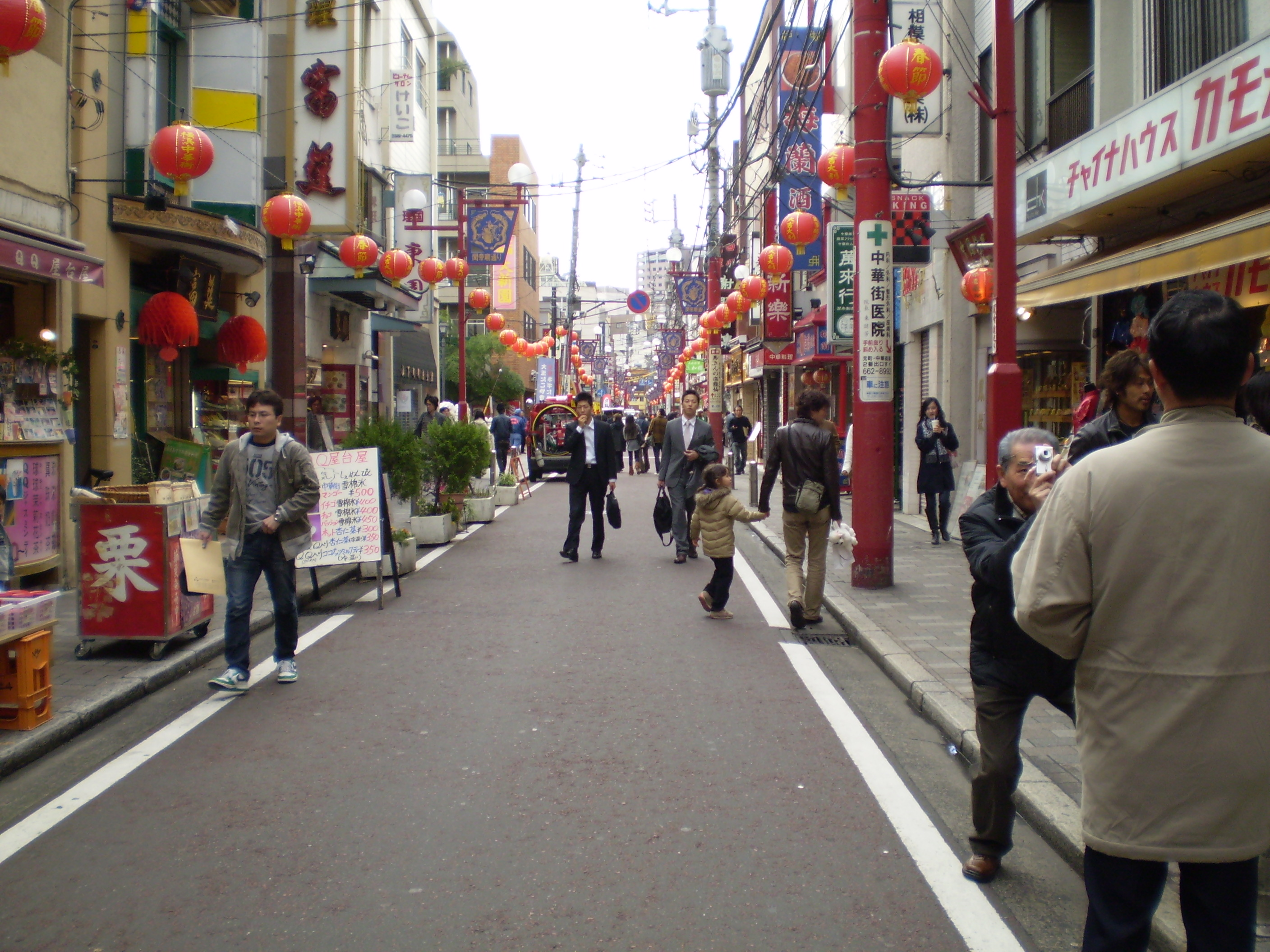 Street in Yokohama's Chinatown